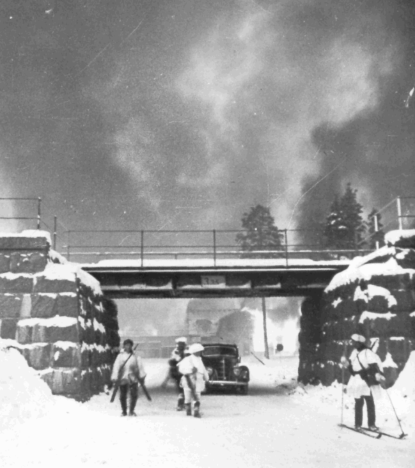 Finnish soldiers of the covering group "U" leaves the burning Suvilathi on the Karelian Isthmus on December 2, 1939.